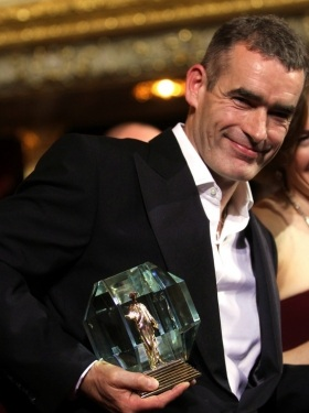 Odessa International Film Festival 2012/ Rufus Norris